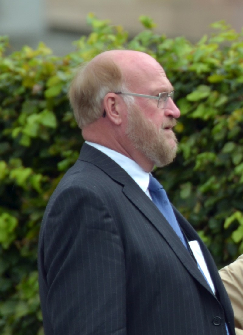 Gunnar Hedberg, member of the Riksdag for the Moderate Party.